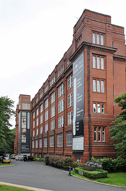 Astley Bridge Mill (or Holden Mill) in Astley Bridge, Bolton. Now converted to apartments